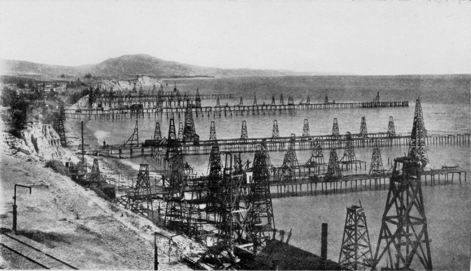 A field of dozens of oil wells just offshore, at Summerland (Santa Barbara County), before 1906. Original caption reads: "Oil wells at Summerland, Santa Barbara County, California, showing the ocean bluffs in front of Sumerland [sic], the wharves and derricks over the wells."